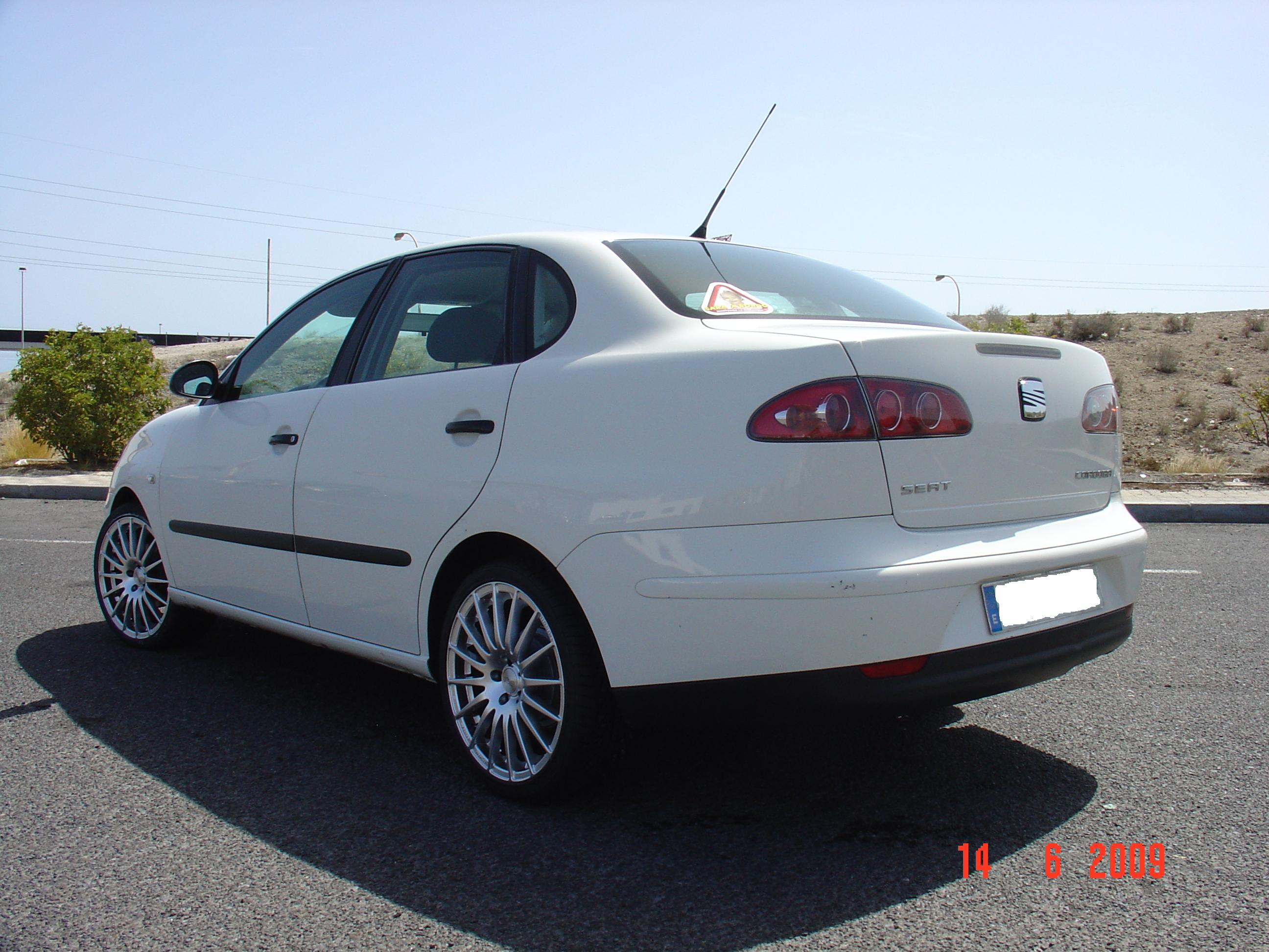 SEAT Cordoba 1.4 16v Stella 75cv